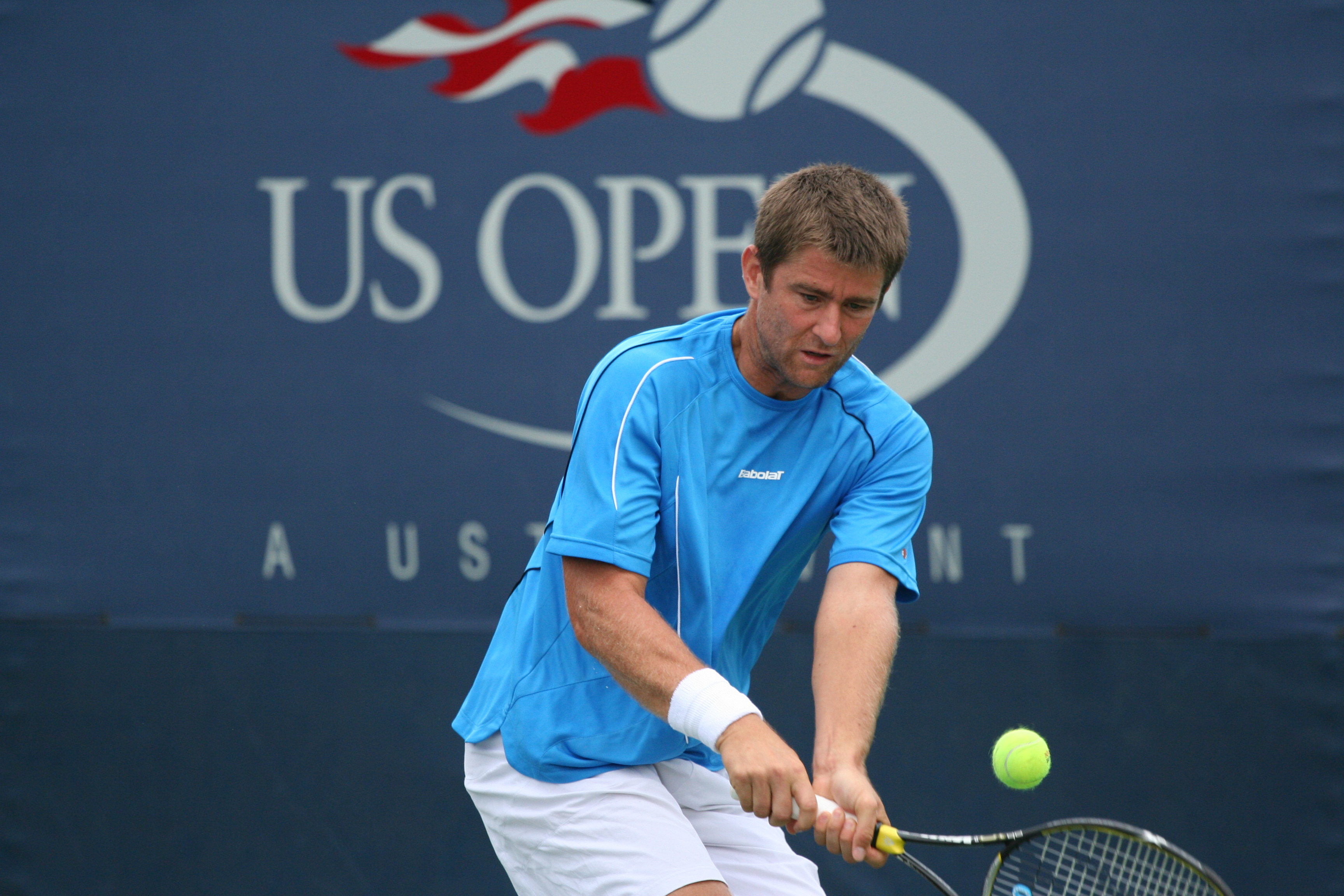 Michael Kohlmann at the 2010 US Open